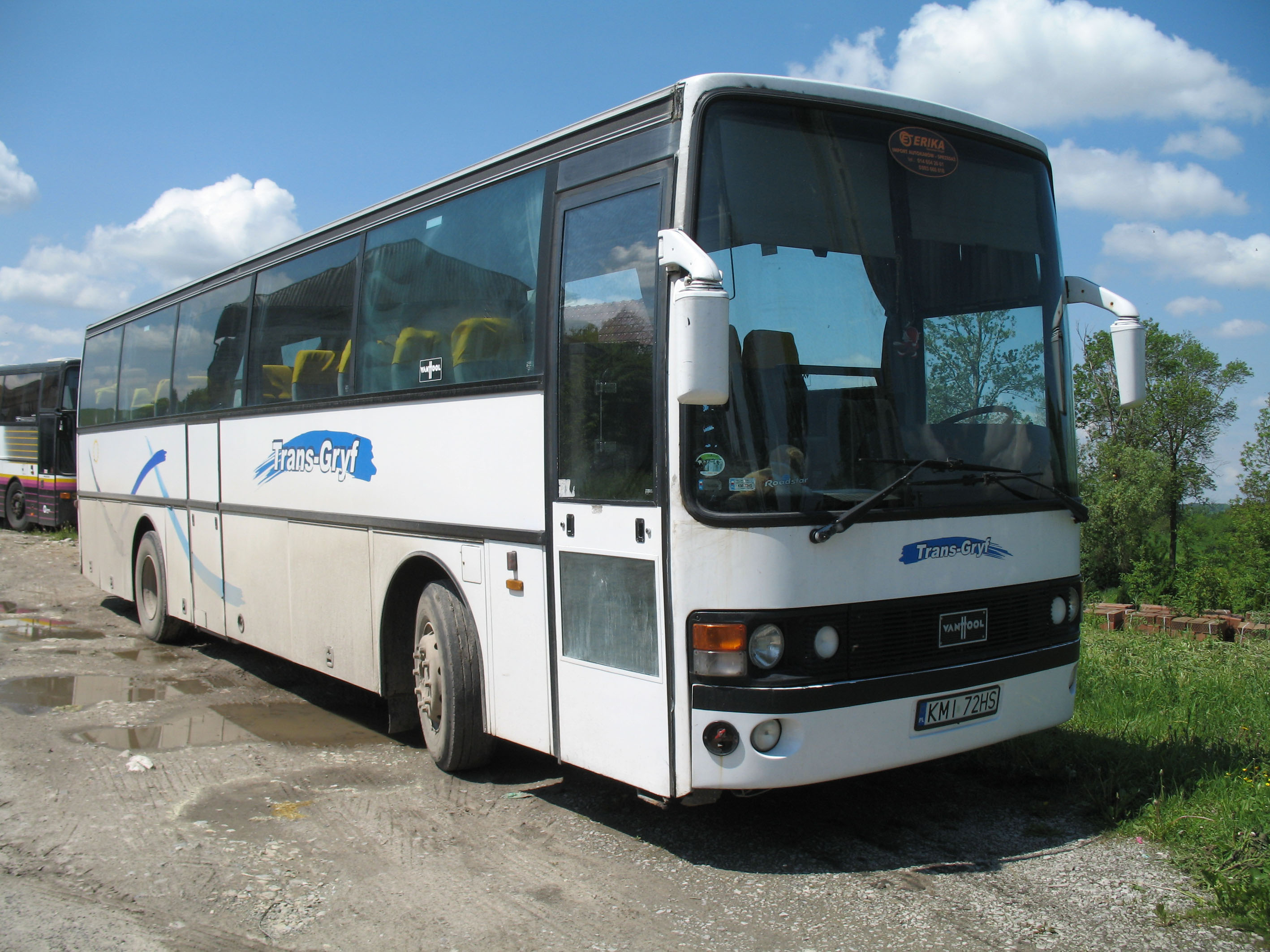 Van Hool bus in Miechów, Poland. Trans-Gryf from Miechów operator.